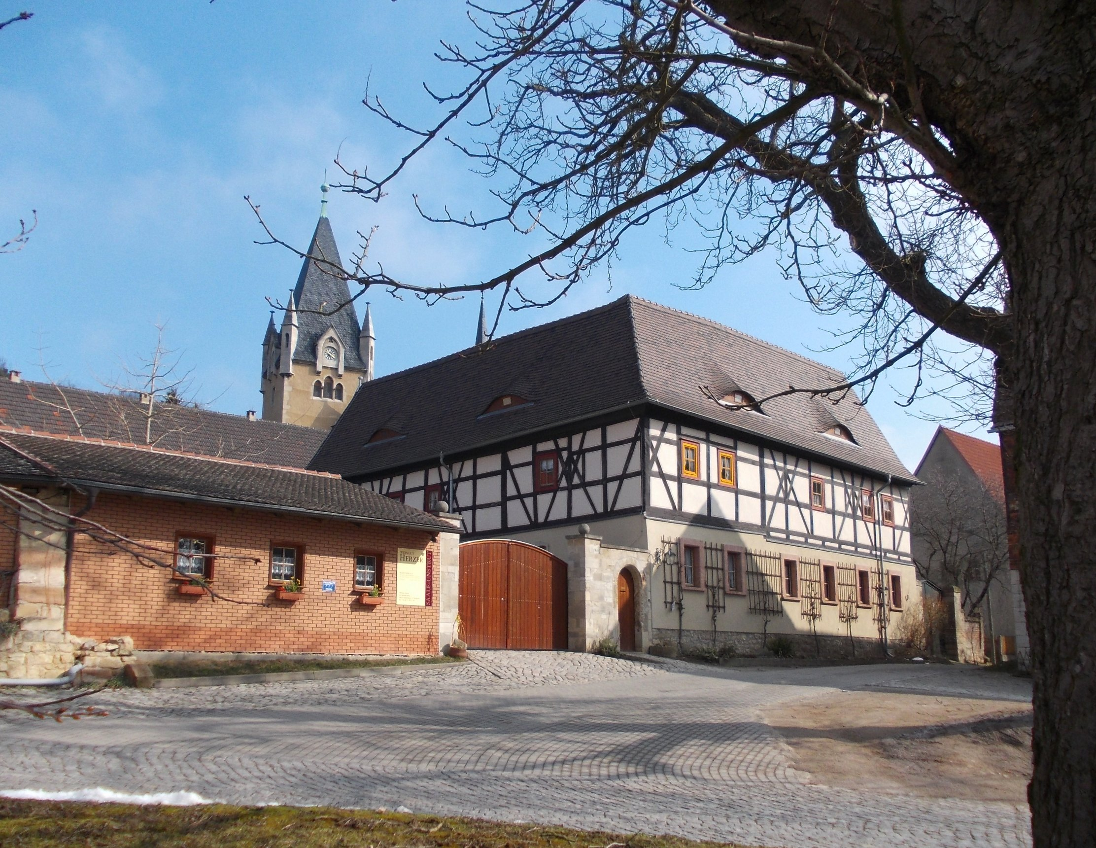 Herzer's vineyard in Rossbach (Naumburg, district of Burgenlandkreis, Saxony-Anhalt)